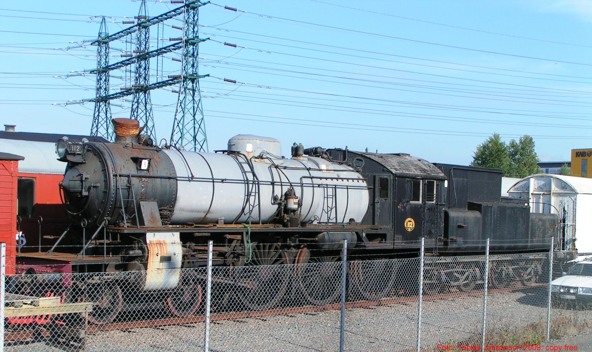 Swedish steam engine H3s 112 2009 in Gothenburg, Sweden